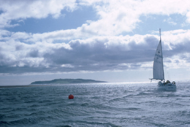 Lambay Island, County Dublin, Republic of Ireland